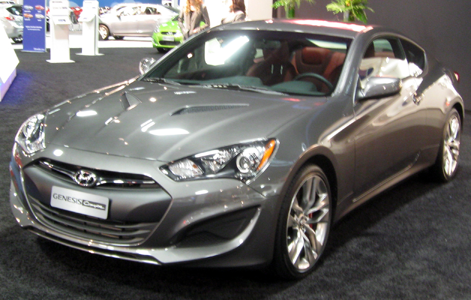 2013 Hyundai Genesis Coupe photographed in Washington, D.C., USA.